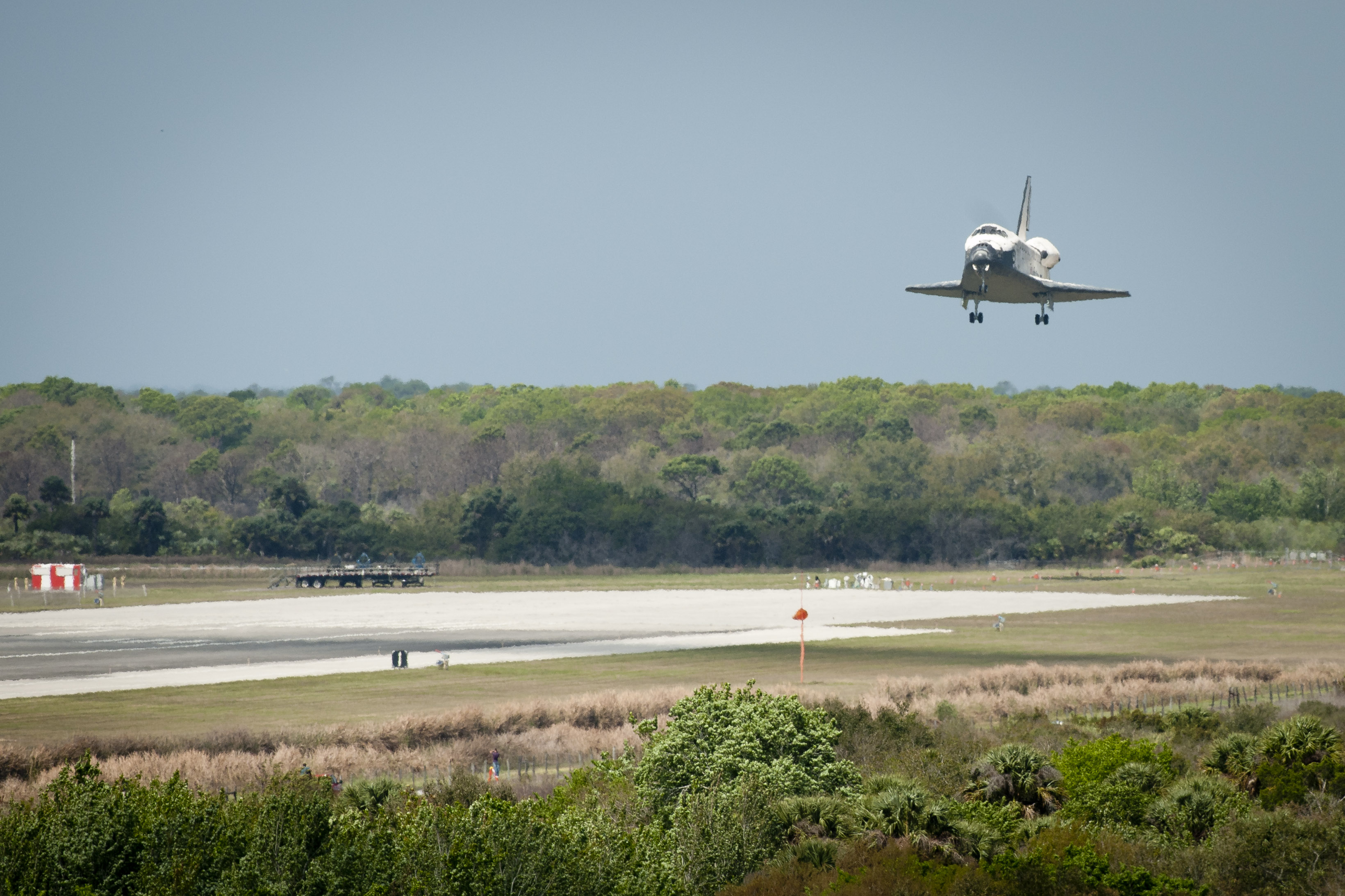 Space shuttle Discovery lands at Kennedy Space Center in Florida to complete its 39th and final flight.